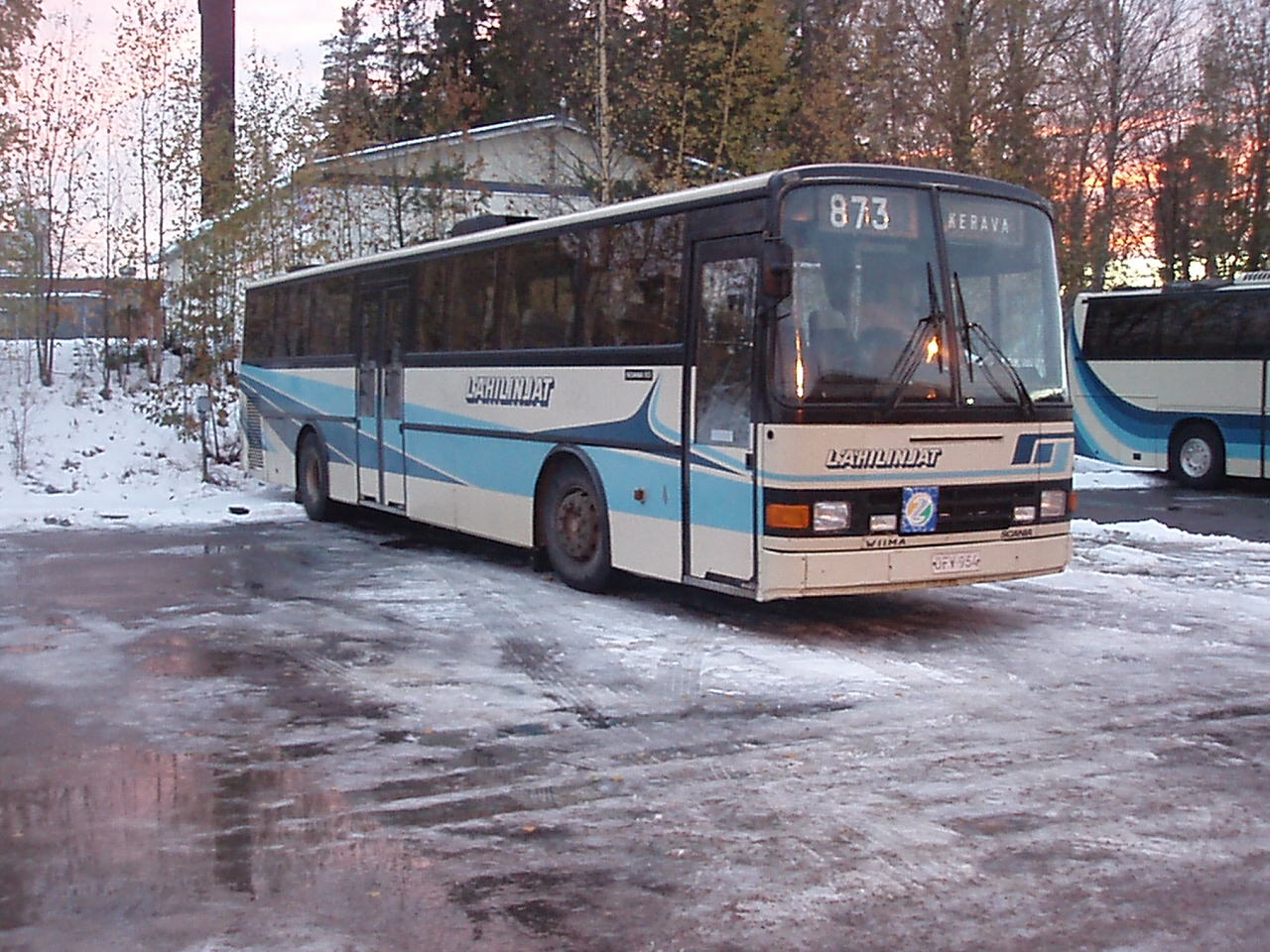 A bus of Lähilinjat.